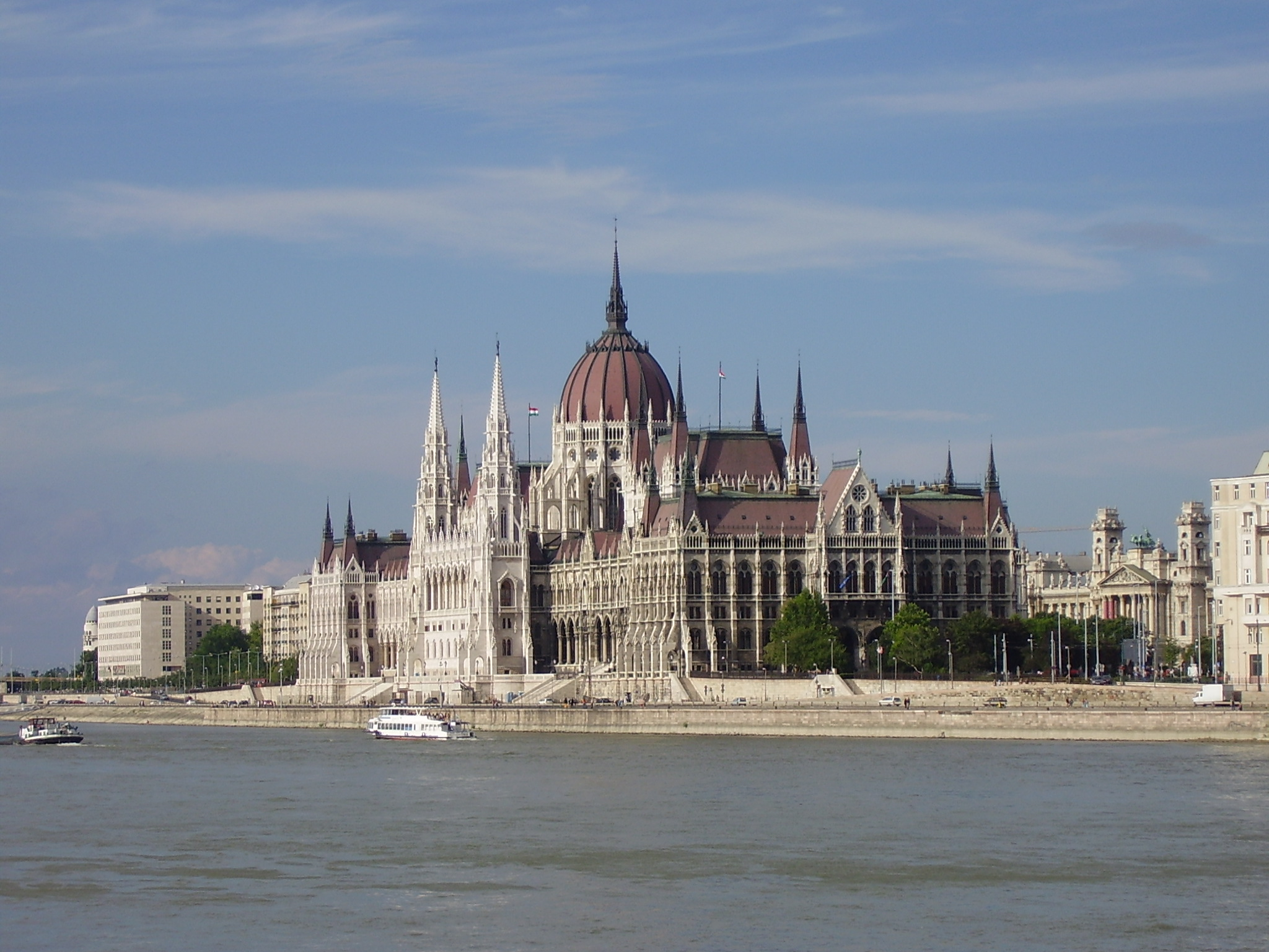 Parliament building in Budapest